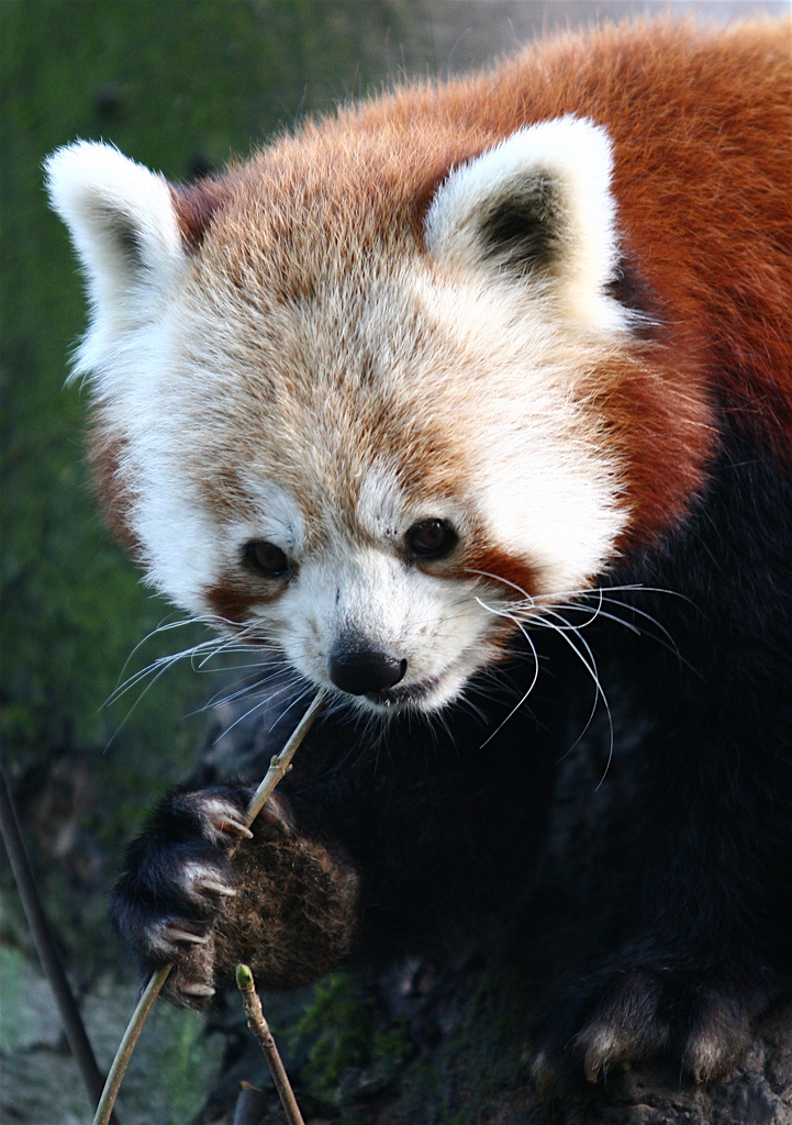 Red Panda, aka Ailurus fulgens Photo taken at Lille's Zoo (France)